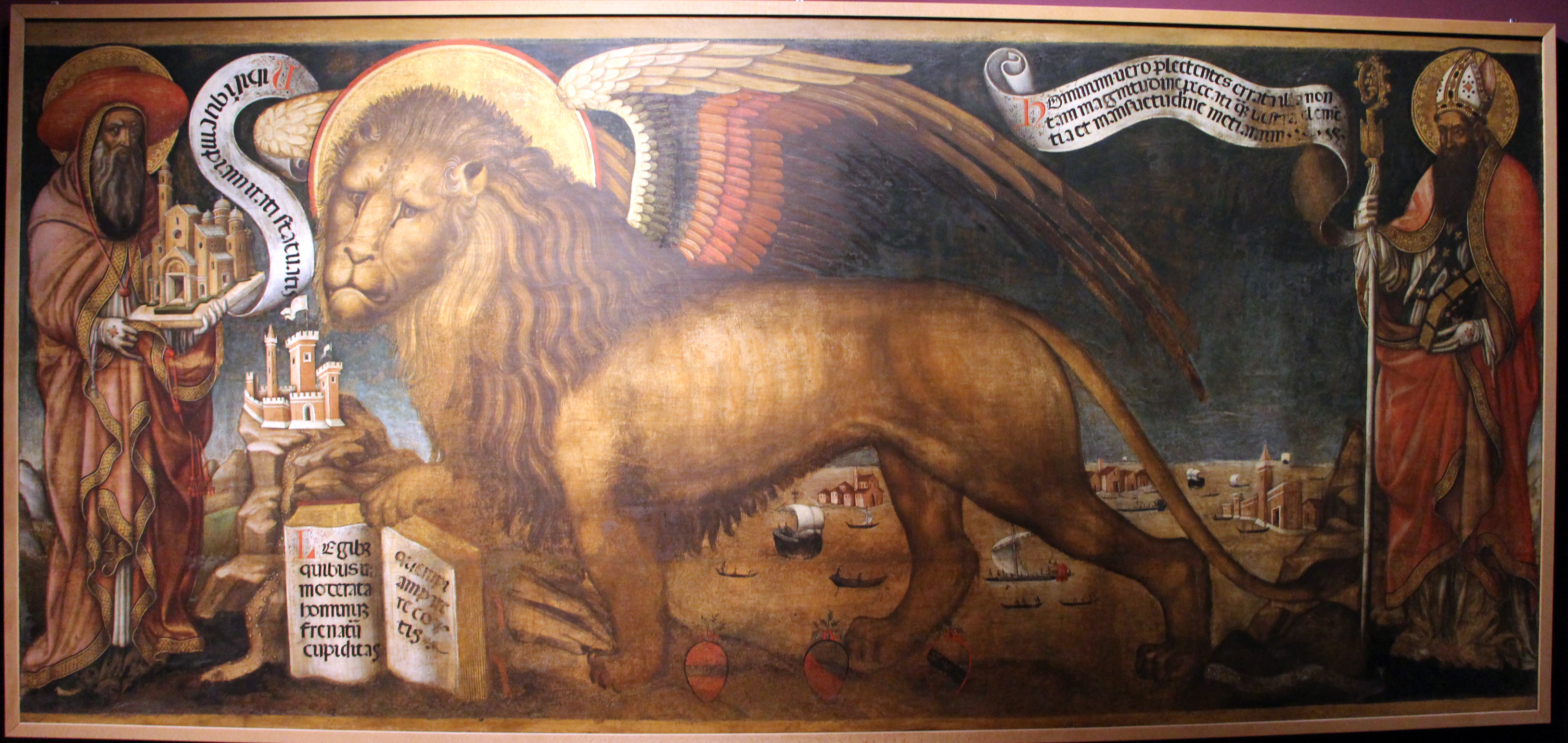 Interior of the Doge's Palace (Venice) - Sala Grimani